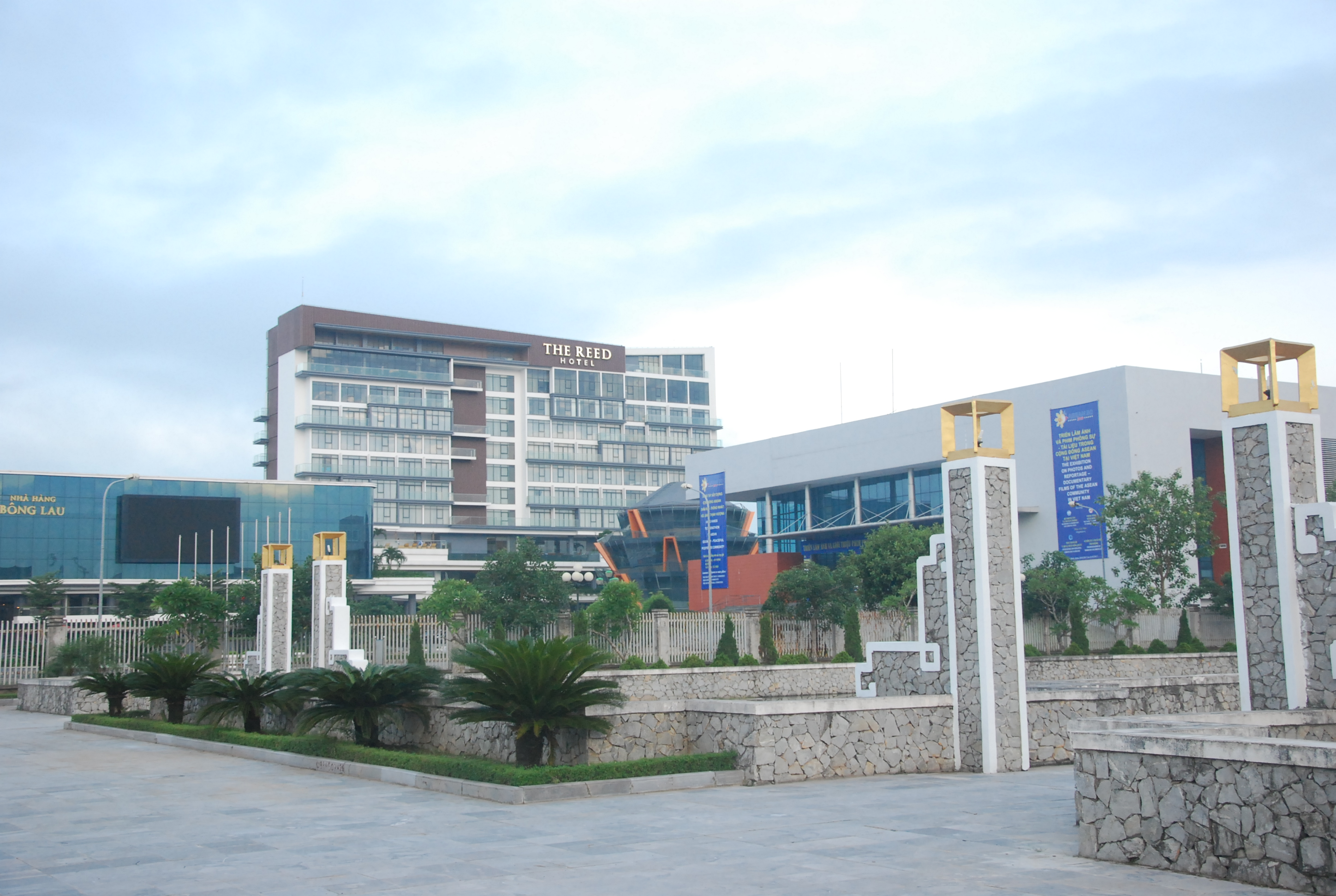 Landscape of Ninh Binh city